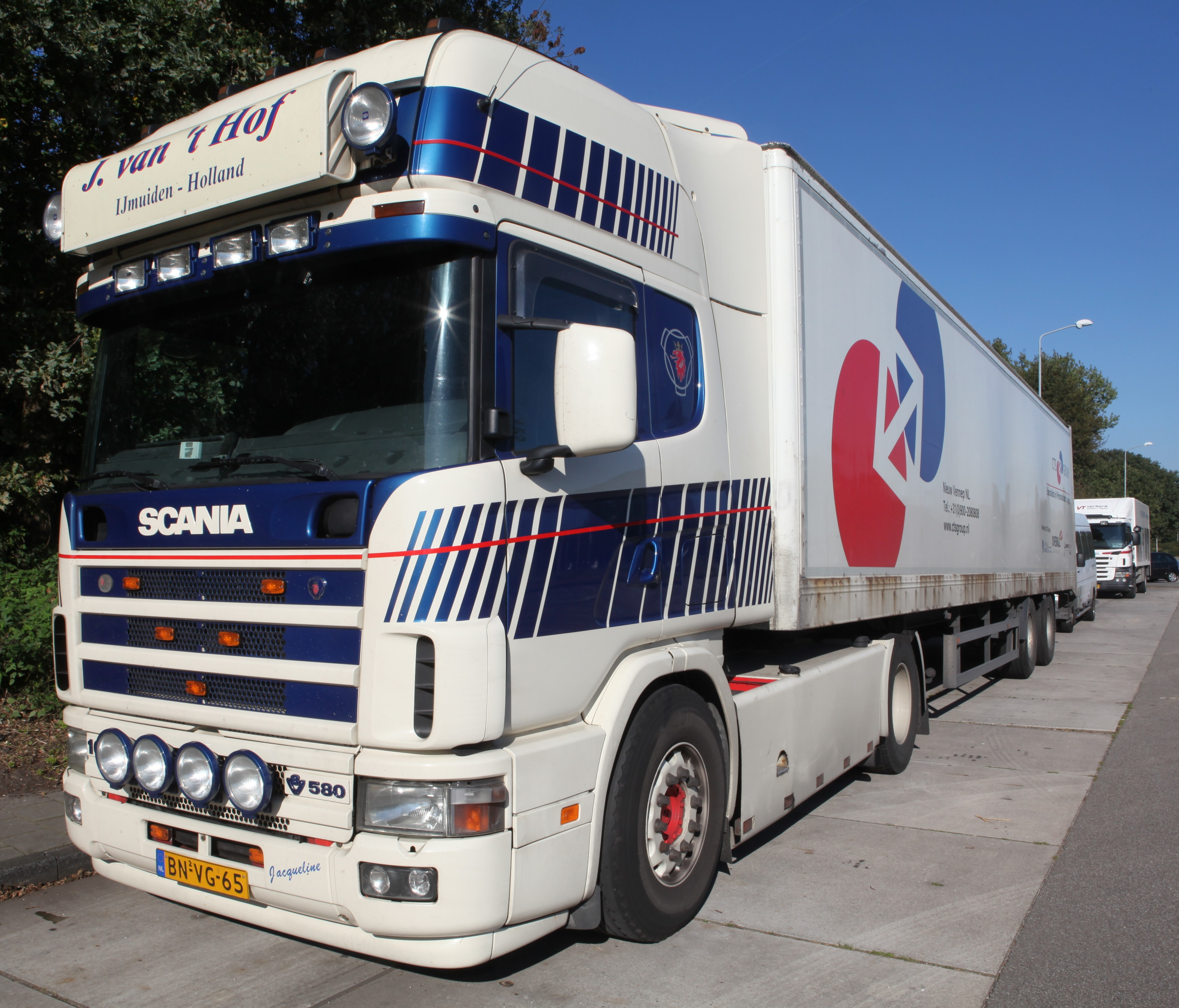 Scania 164 L 580 J. van t Hof IJmuiden.